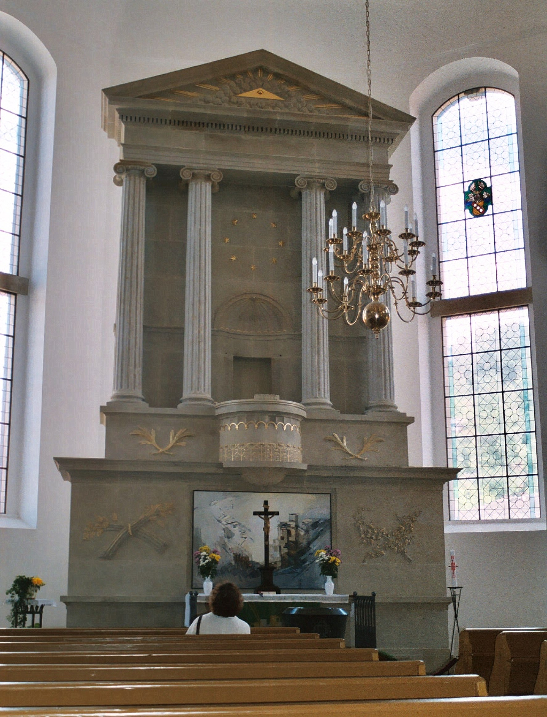 Königstein (Saxony), pulpit altar in the town church